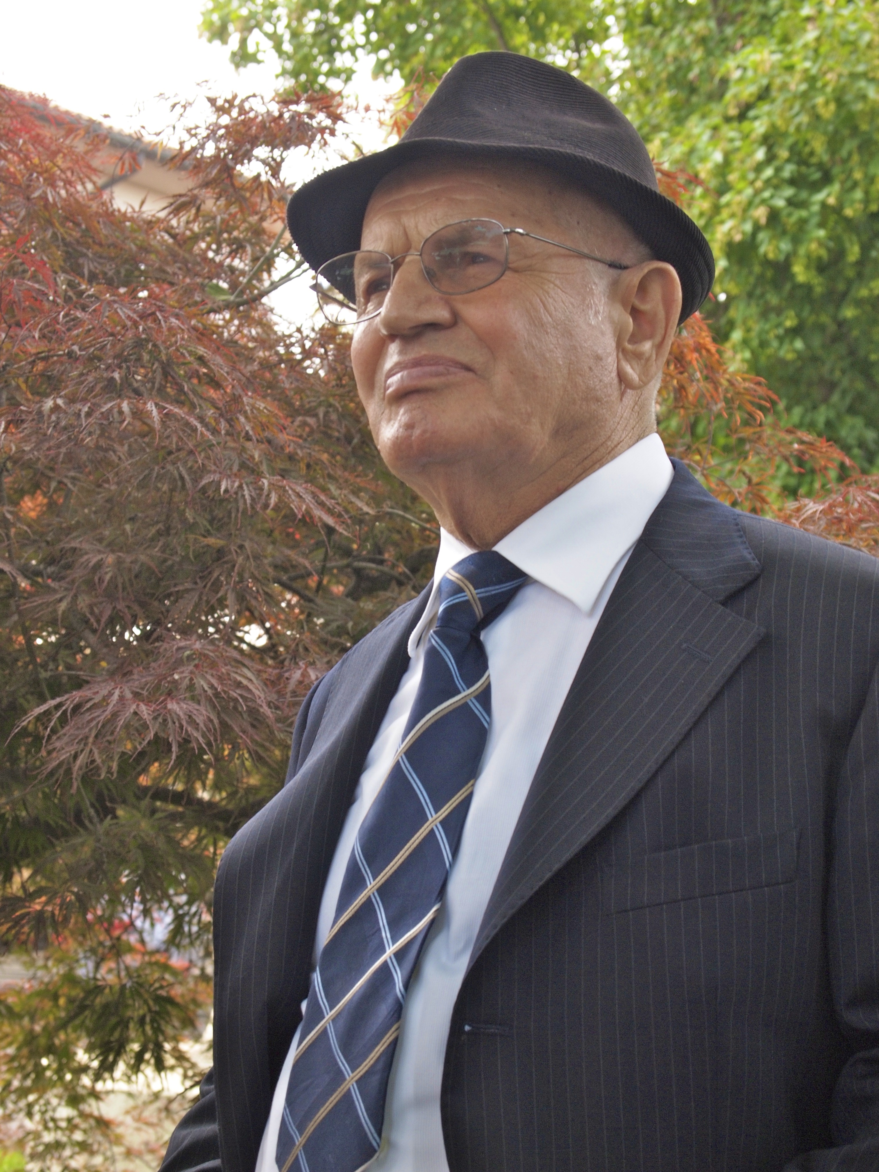 Dr. Hasan Kurti on June 10, 2012.